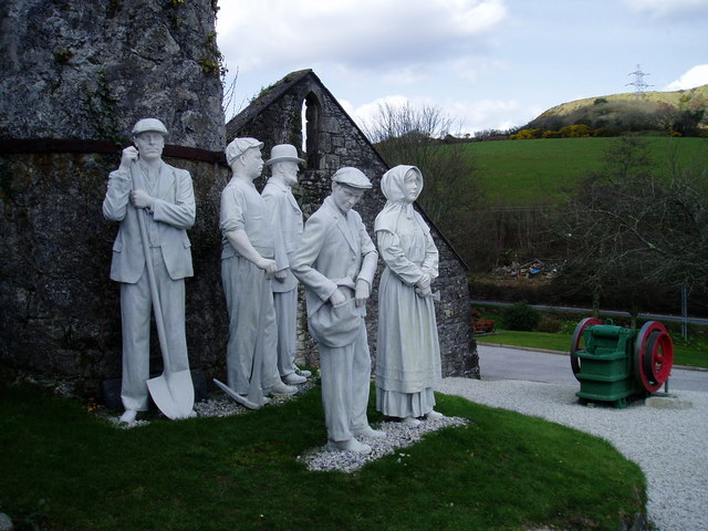 China Clay Sculpture Wheal Martyn Museum,St Austell Life size China Clay Sculptures outside the Wheal Martyn China Clay Museum,St Austell